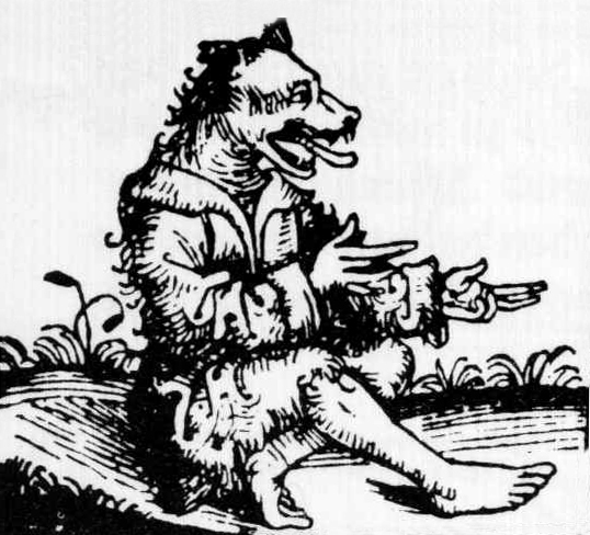 A detail of Schedel’sche Weltchronik (sheet XII), anIncunabulum of Hartmann Schedel, showing a Cynocephalus